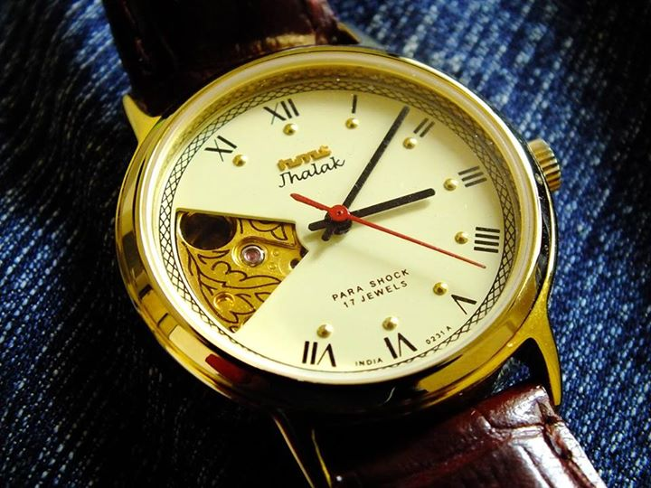 A semi skeletal mechanical watch from HMT watches.